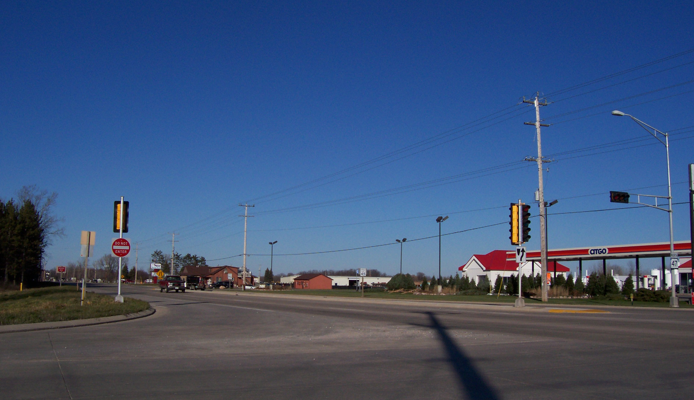 Highway 47 (Wisconsin) in Grand Chute, Wisconsin, USA. Cropped from the original.